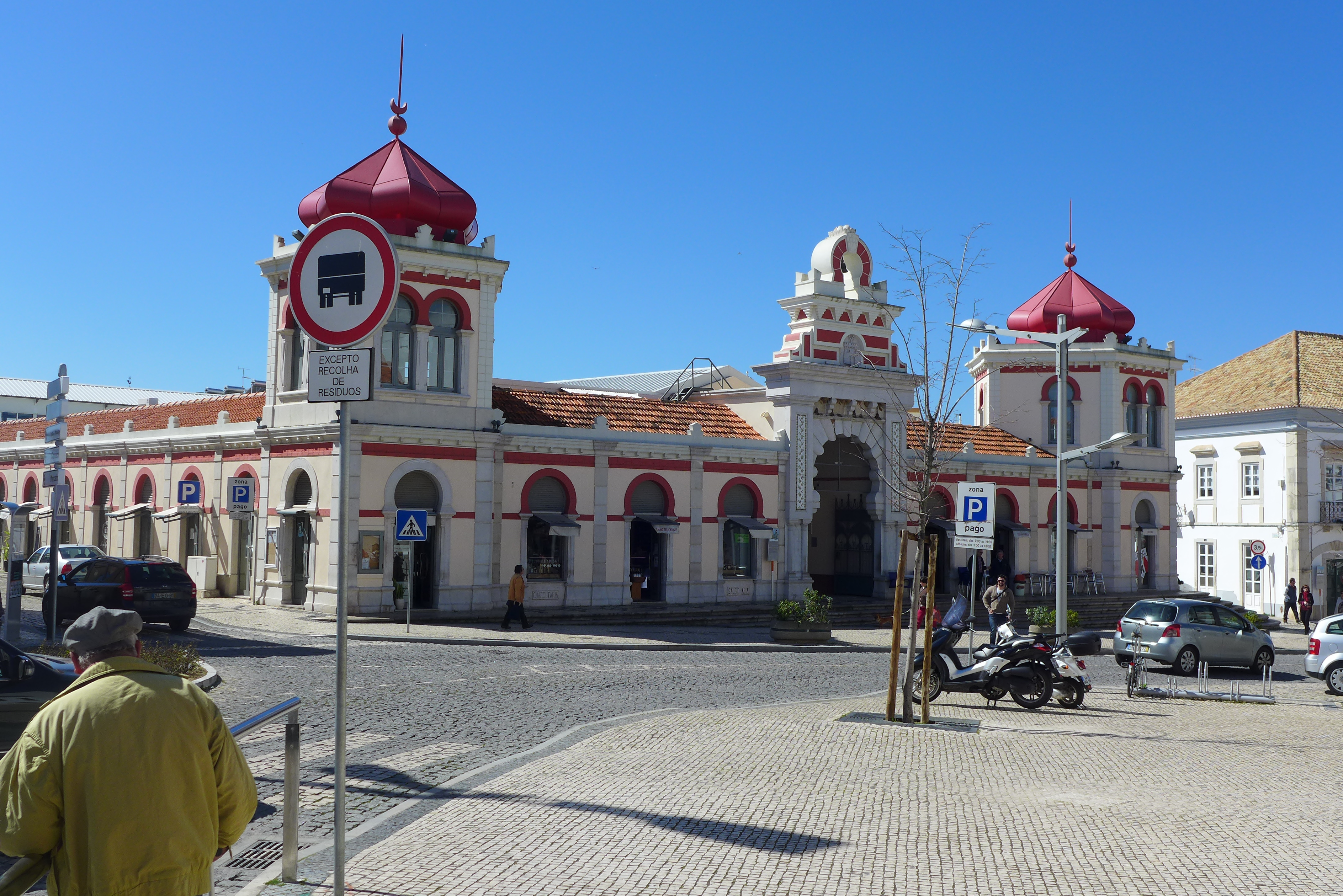 Municipal market hall in Loulé, Algarve, Portugal